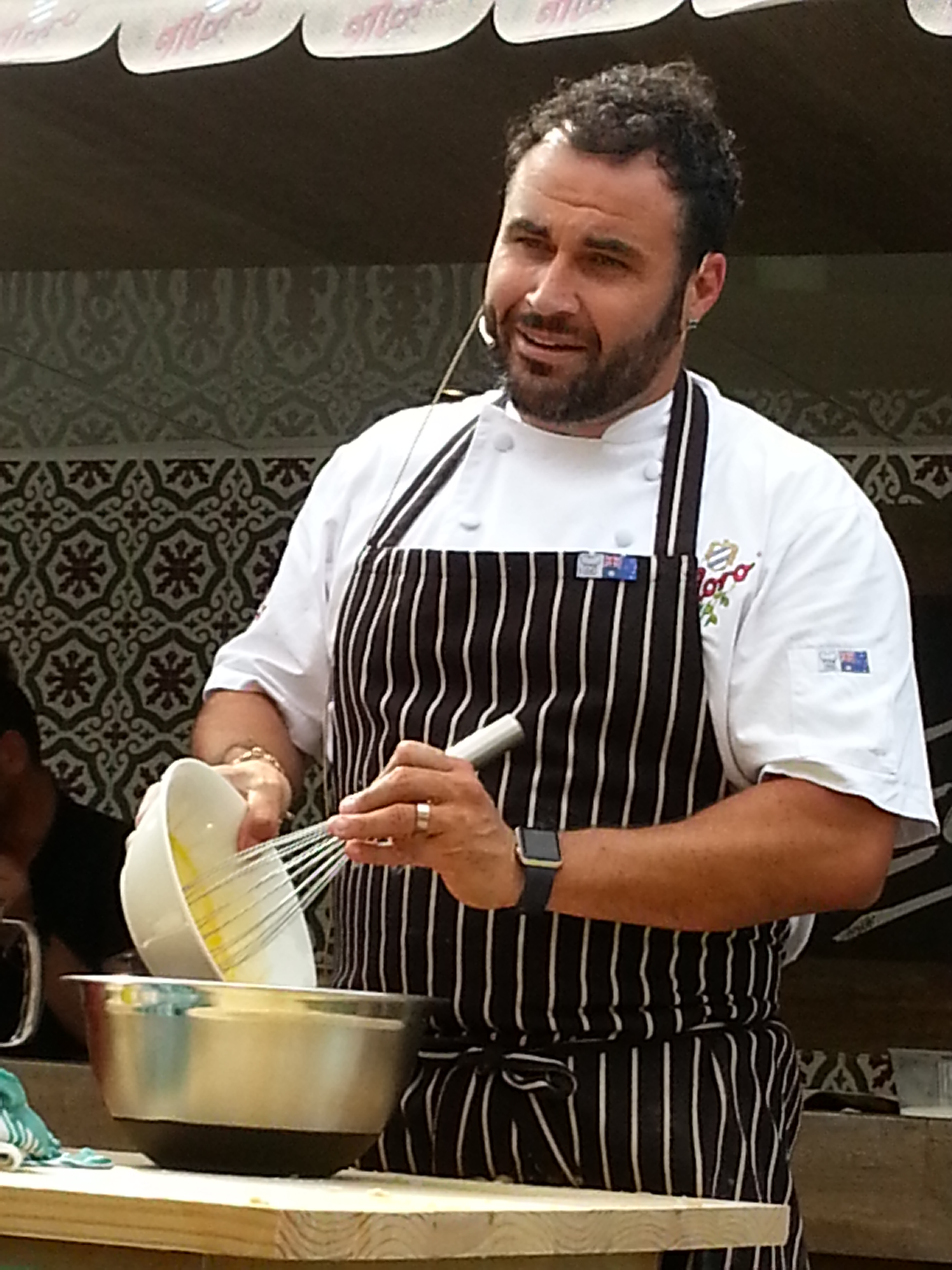 Miguel Maestre at a pop-up food event in Adelaide in March 2016.